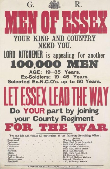 "Men Of Essex. Your King And Country Need You". Recruitment poster for Kitchener's Army.